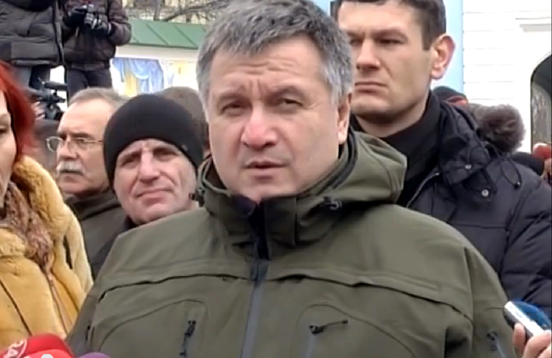 The Minister of the Interior of Ukraine Arsen Avakov talks at the exhibition called «Presence. Evidence of the Russian Military Aggression on the territory of Ukraine» took place Downtown Kiev at Mykhaylivska Square on February 21-28. The exhibition has been sponsored by the Presidential Administration of Ukraine. The Ministry of Defense of Ukraine participated in preparation of the exposition, particularly, it "has provided the captured heavy weapon delivered to the capital from the frontline. Press Service of the Ministry of Defense of Ukraine"